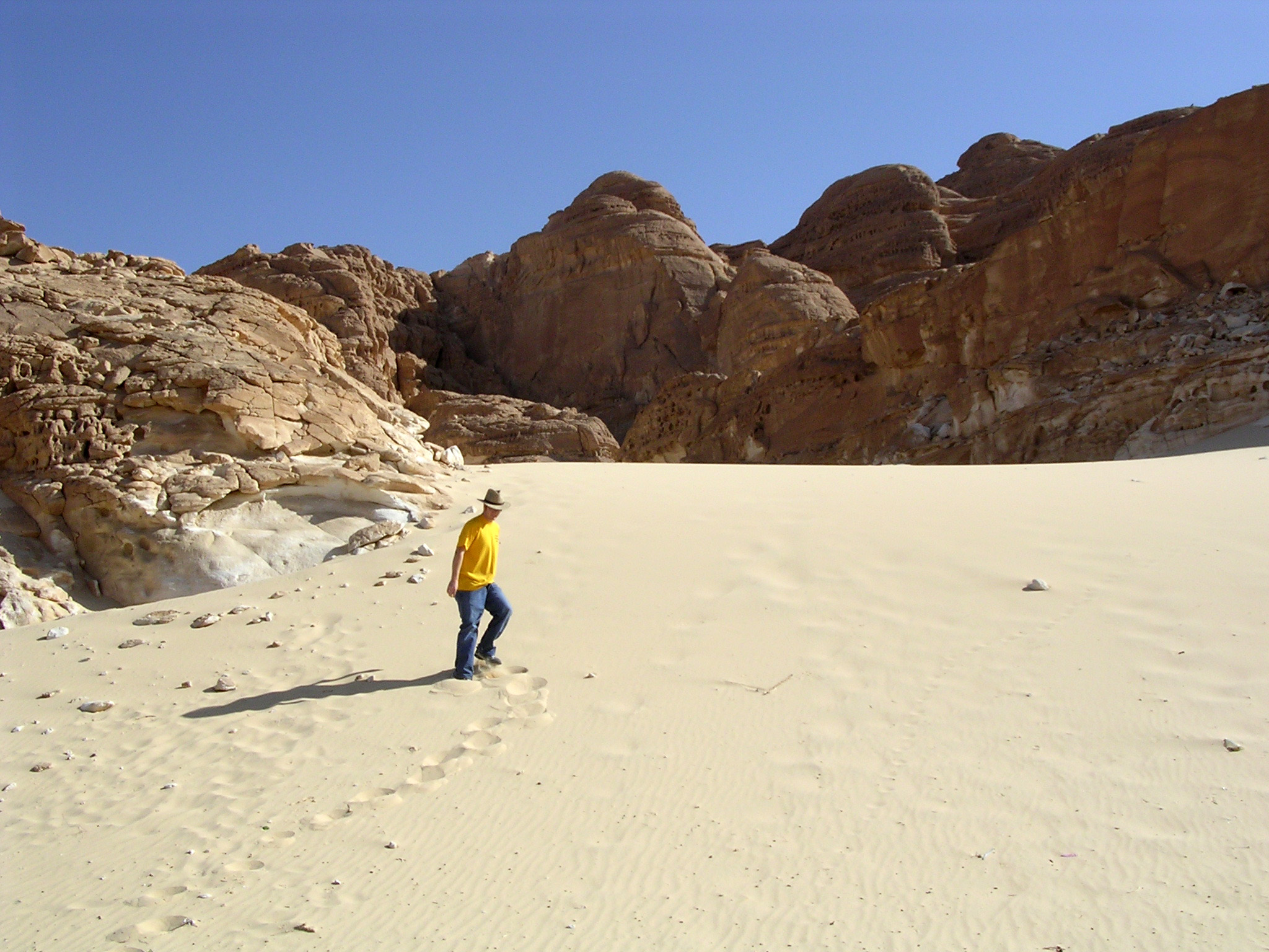 Sand dune on the Sinai Peninsula.